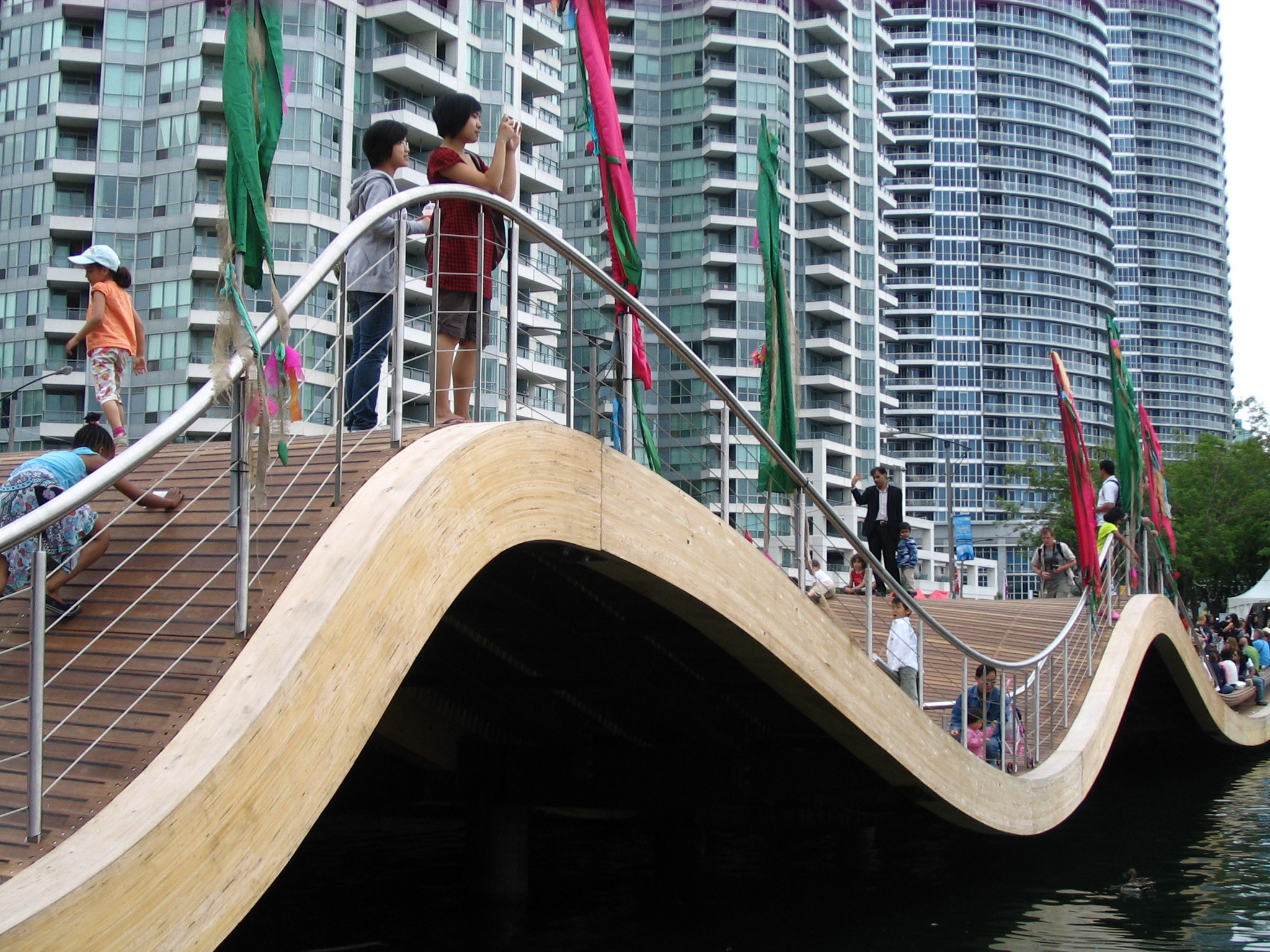 Taking photos from and of the recently opened Spadina "Wave Deck" at Harbourfront last summer.